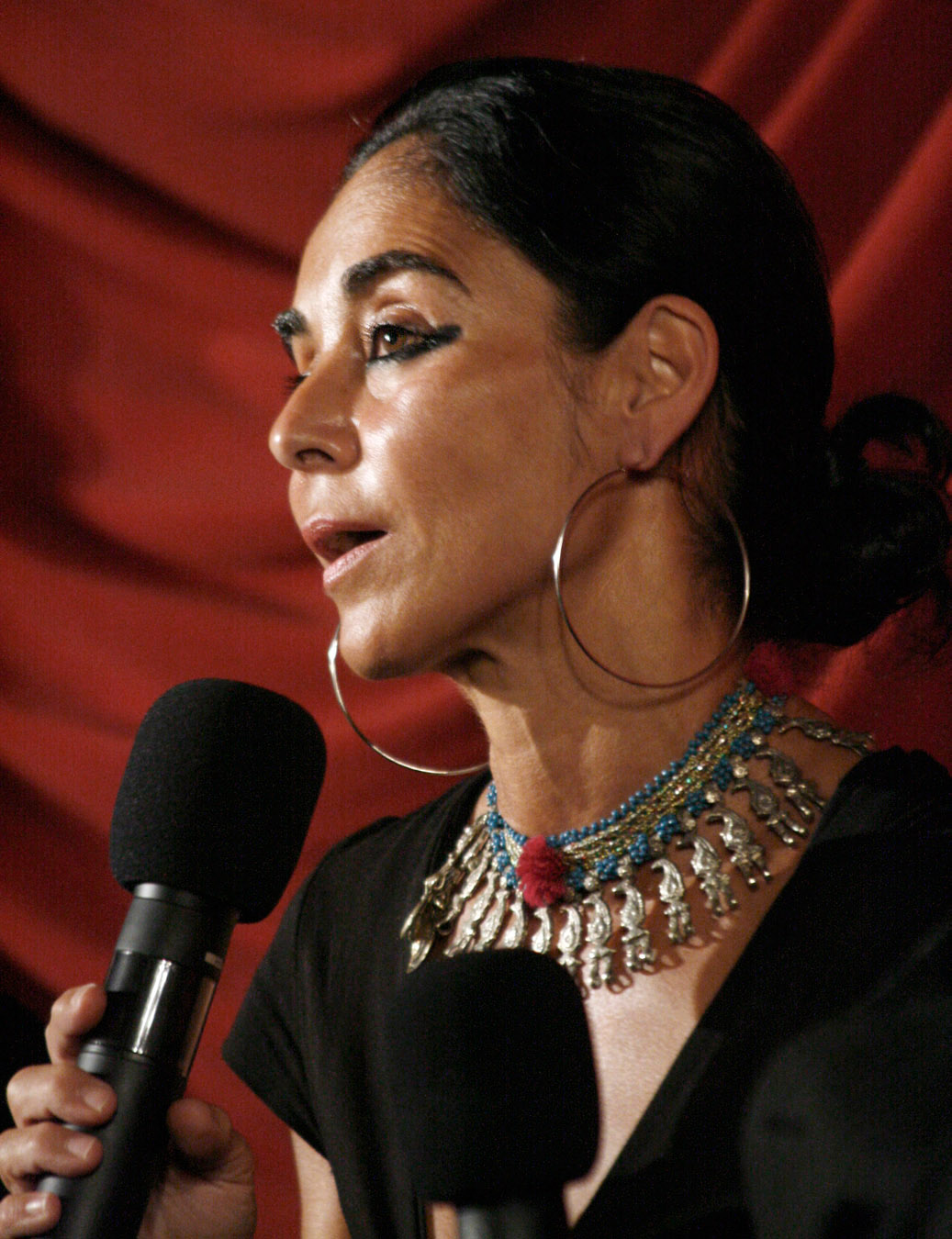 Shirin Neshat talking about Zanan bedun-e mardan (Women without men) at the Gartenbaukino in Vienna.